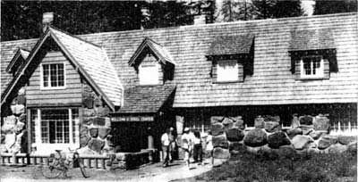 The Ranger Dormitory in the Munson Valley Historic District, Crater Lake National Park, Oregon, United States.